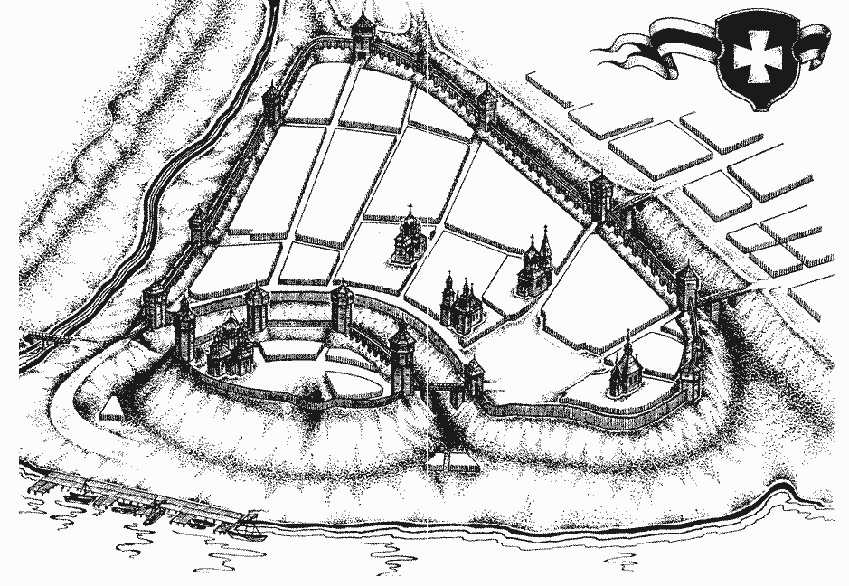 Gomel fortress in the 16th century